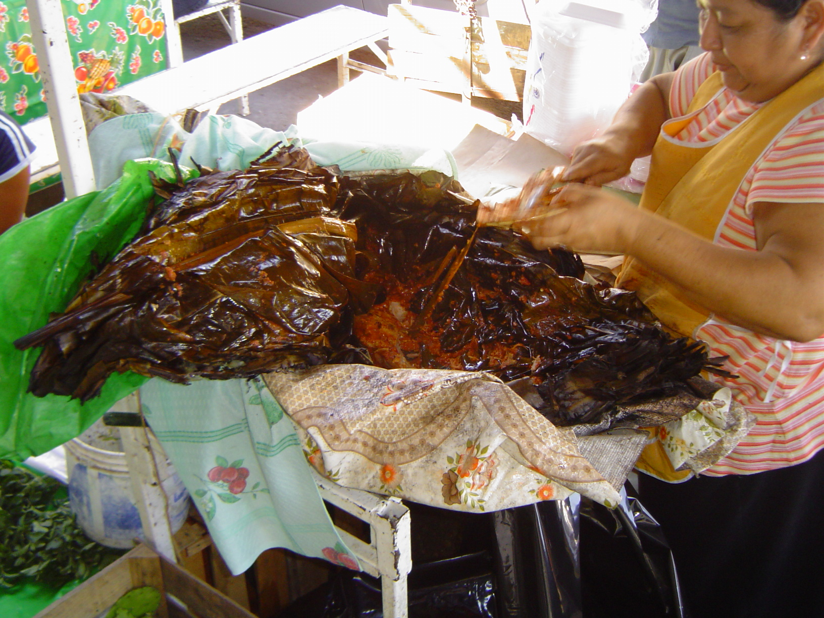 Zacahuil, a gigantic tamale